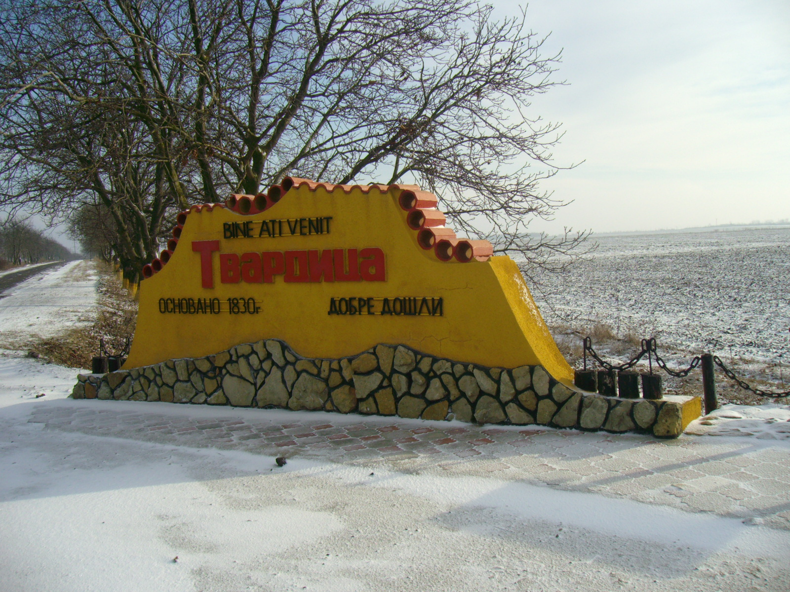 Tvardica